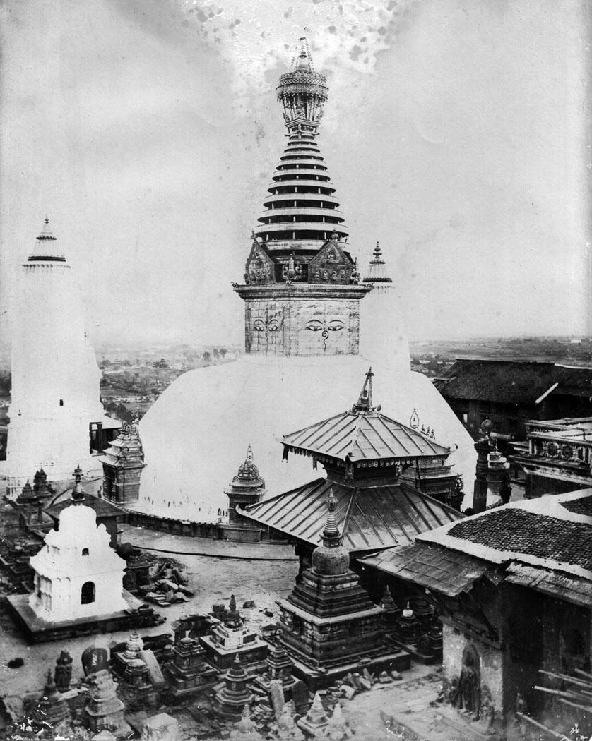 Swayambhu stupa in Kathmandu shortly after renovation, photo created around 1920.